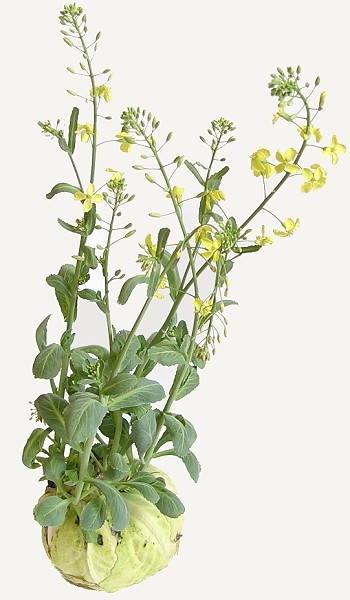 Unplanted head of cabbage in flowers.